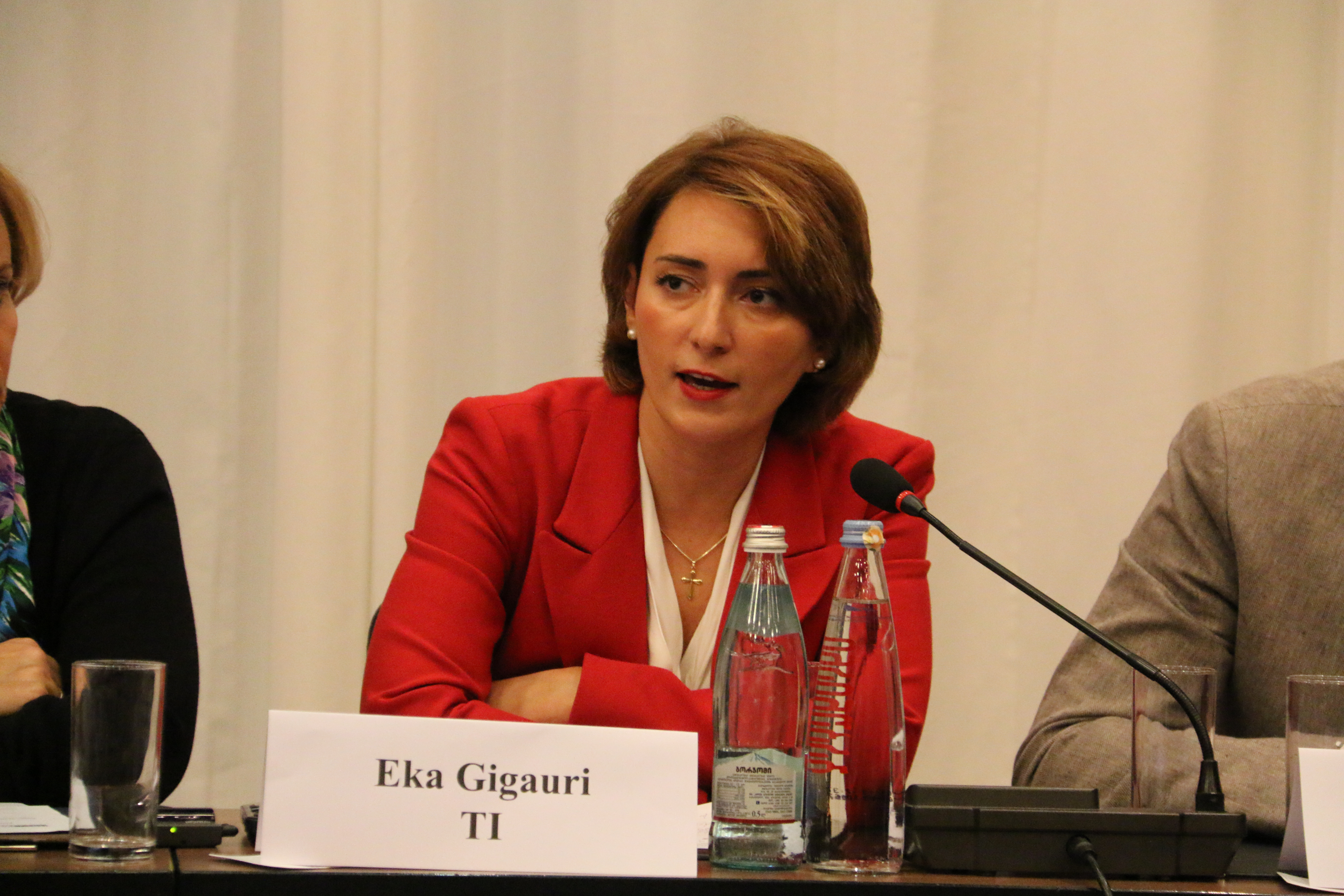 OSCE PA Election Observation Mission to Georgia, 26-29 October 2018